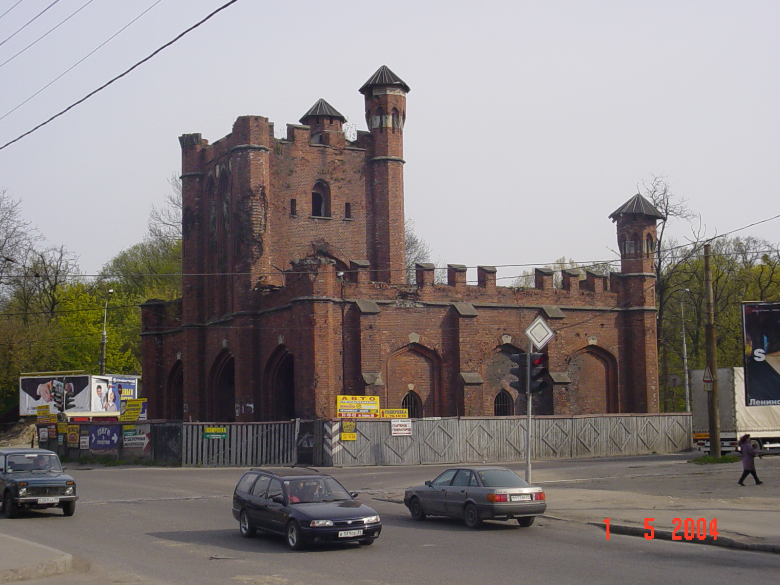 Royal Gate (Königstor) in Kaliningrad, still with wartime bullet holes.